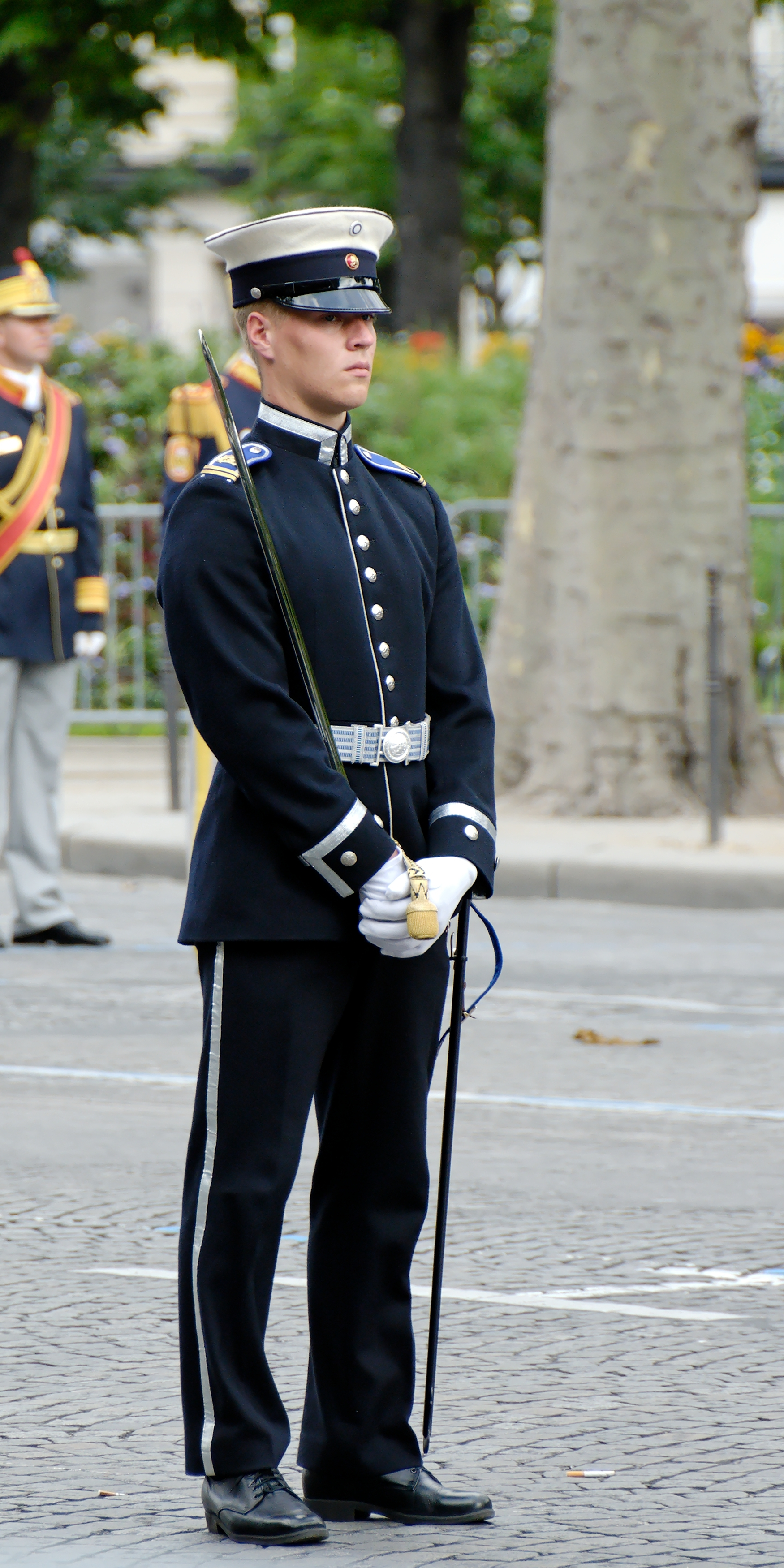 Cadet of the National Defence Advanced College of Finland during the Bastille Day 2007 military parade on the Champs-Élysées.